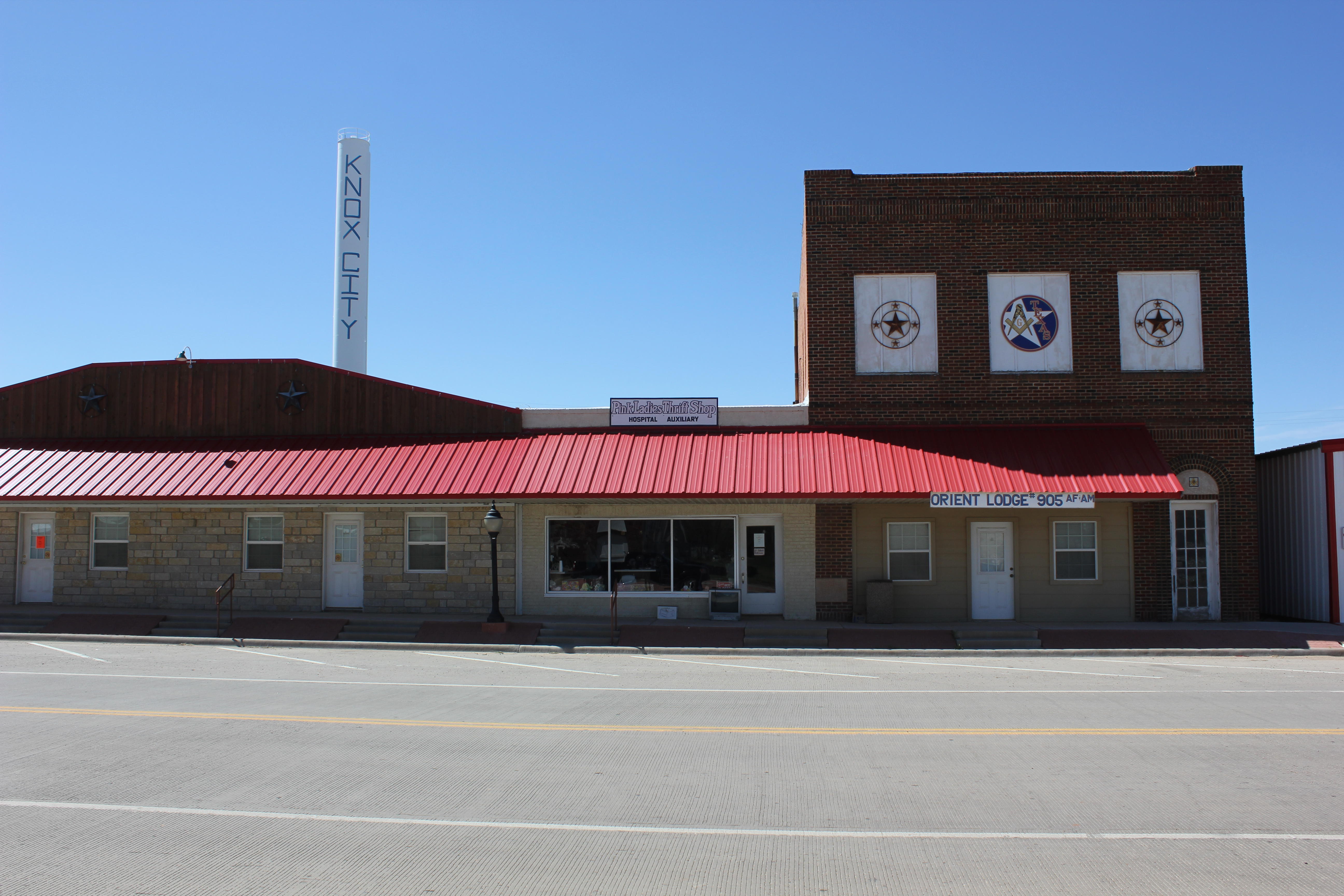 Masonic Lodge, Knox City, Texas.